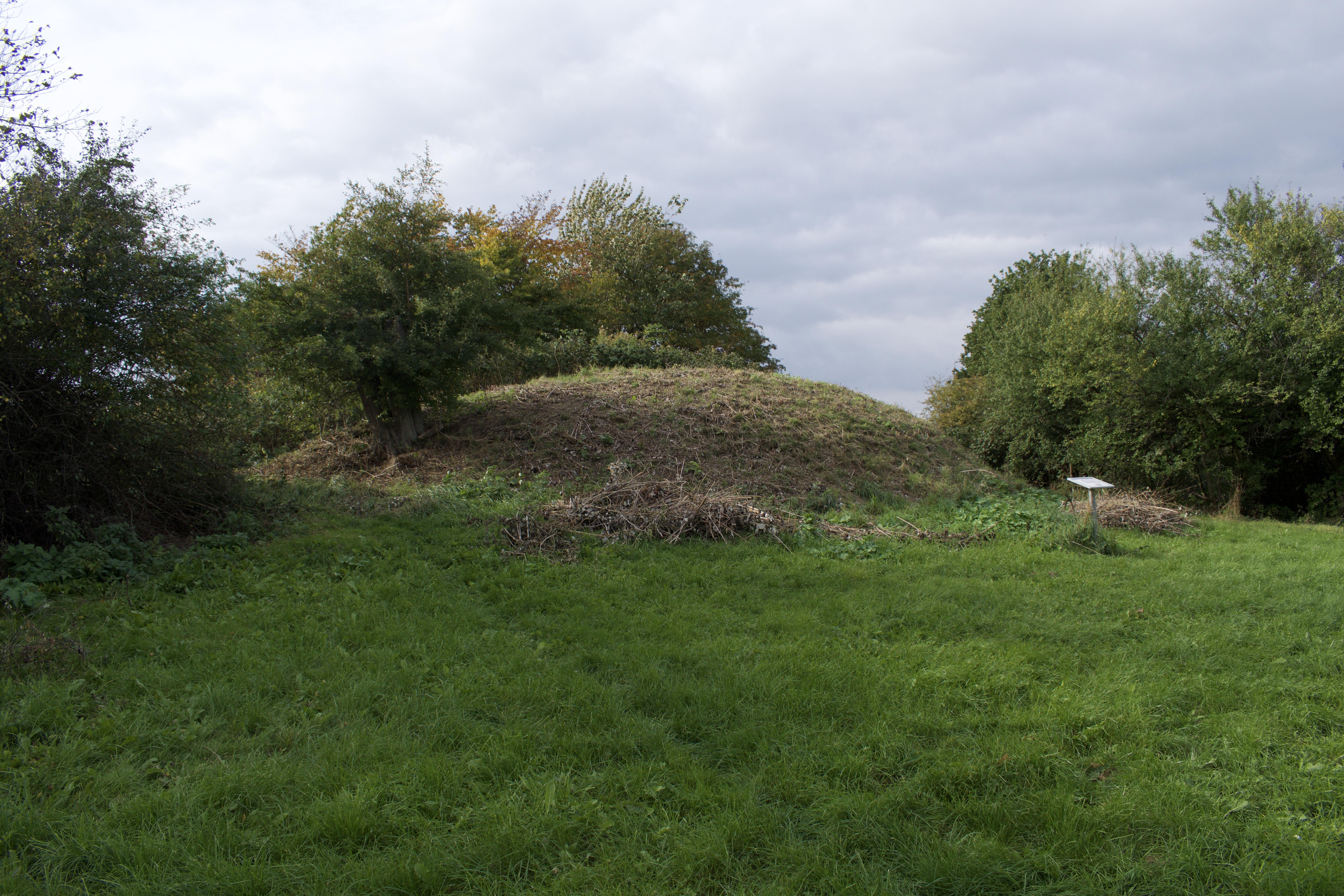 Lemmehøj, a protected Tumulus in Ballerup Municipality, Denmark